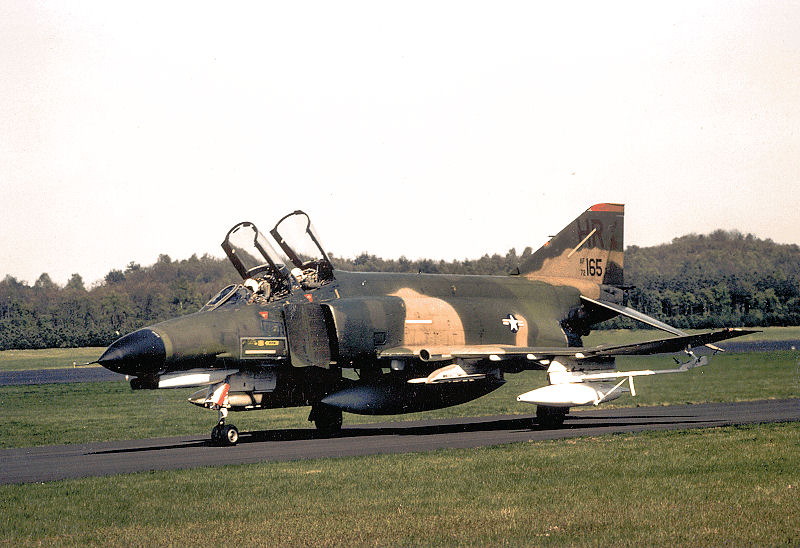 313th Tactical Fighter Squadron - McDonnell Douglas F-4E-52-MC Phantom - 72-0165